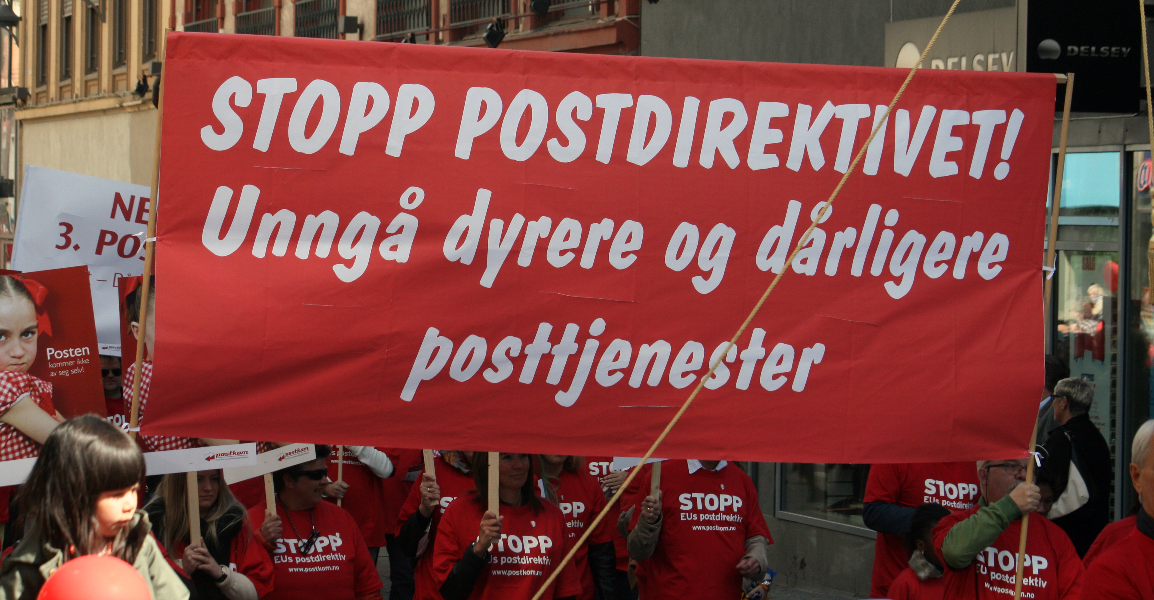 Norwegian postal workers protesting against EU Post Directive on Labor Day 2014 in Oslo